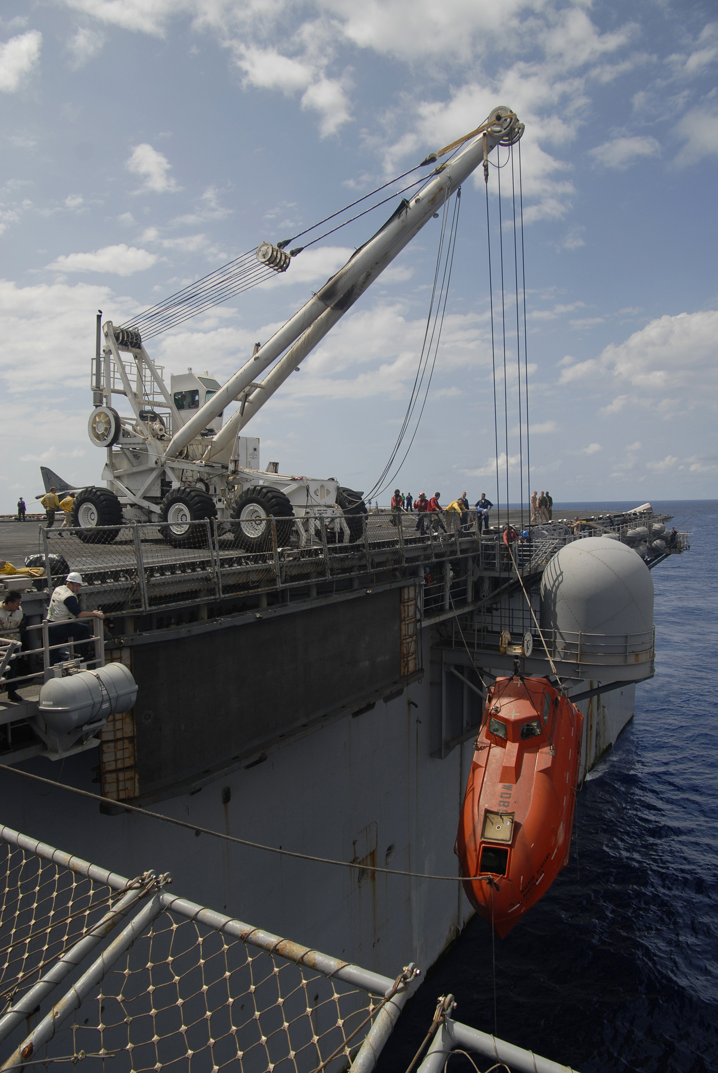 090413-N-9150R-164 INDIAN OCEAN (April 13, 2009) The lifeboat from the Maersk Alabama is hoisted aboard the amphibious assault ship USS Boxer (LHD 4) to be processed for evidence after the successful rescue of Capt. Richard Phillips. Phillips was held captive by suspected Somali pirates in the lifeboat in the Indian Ocean for five days after a failed hijacking attempt off the Somali coast. Boxer is deployed as part of Boxer Amphibious Readiness Group/13th MEU supporting maritime security operations in the U.S. 5th fleet area of responsibility. Maritime security operations help develop security in the maritime environment and compliment the counterterrorism and security efforts of regional nations. From security arises stability that results in global economic prosperity. These operations seek to disrupt violent extremists' use of the maritime environment to transport personnel and weapons or serve as a venue for attack. (U.S. Navy photo by Mass Communication Specialist 2nd Class Jon Rasmussen/Released)